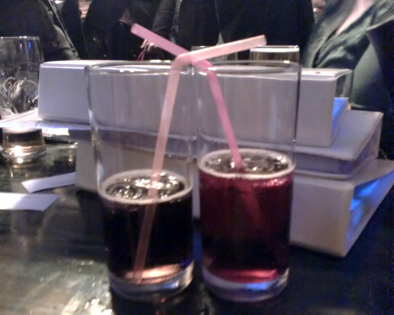 A glass of Cheeky Vimto (left) and Peel Tizer (right); not the best image we could have, but the only free one I could find at the time.